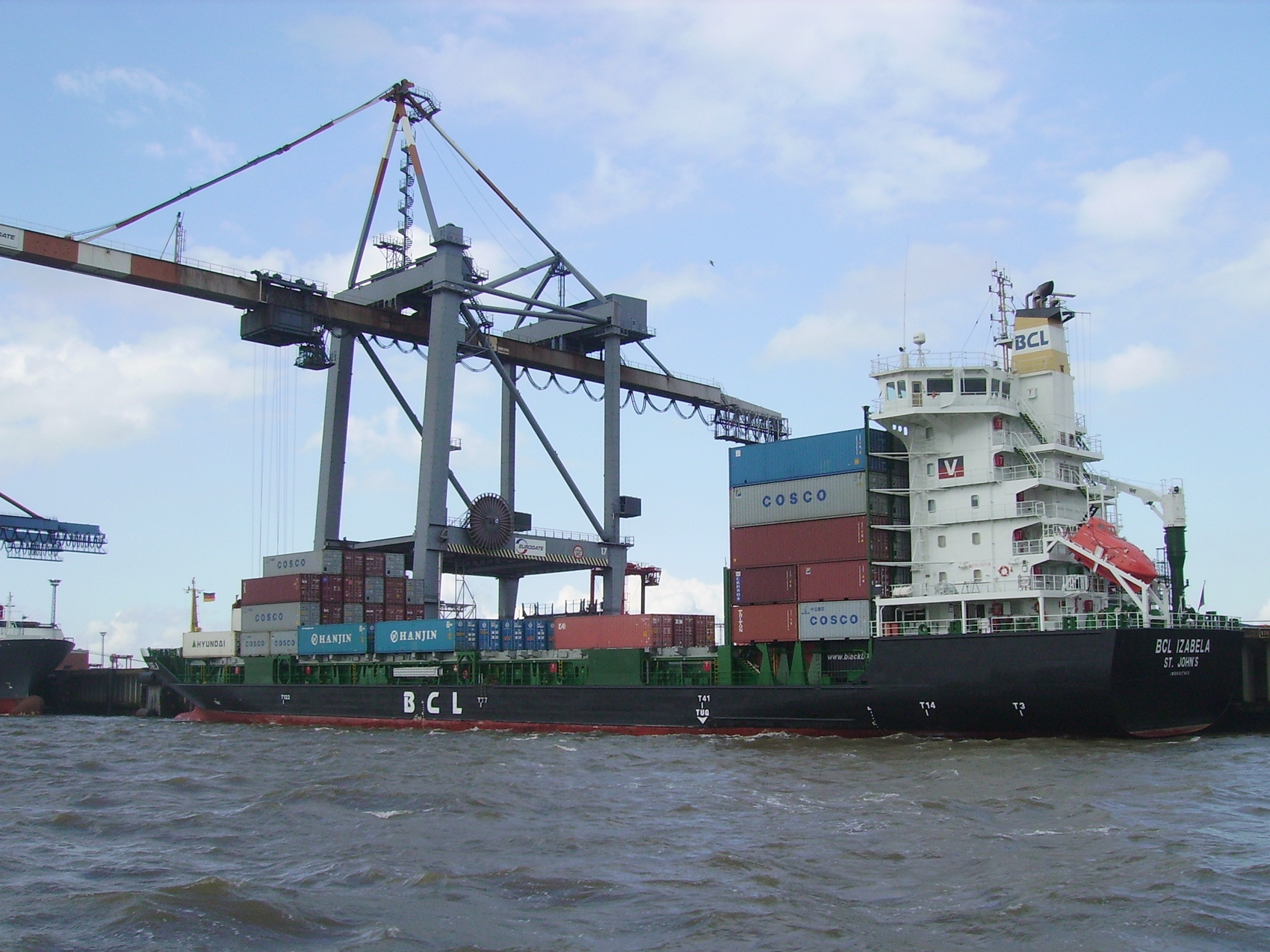 The feeder ship BCL Izabela in Bremerhaven, Germany.